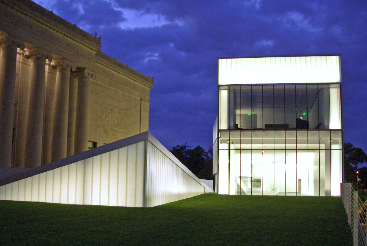 Neslon-Atkins Museum of Art, Kansas City, Missouri